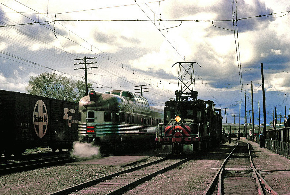 By early 1965, parent WP had decided to remove the SN electrification. New autoracks coming into service would be very close to the wire and the power contract was ending. A farewell excursion was run with #654 and two SN Cabeese on all remaining electrified track and is seen meeting the Eastbound California Zephyr